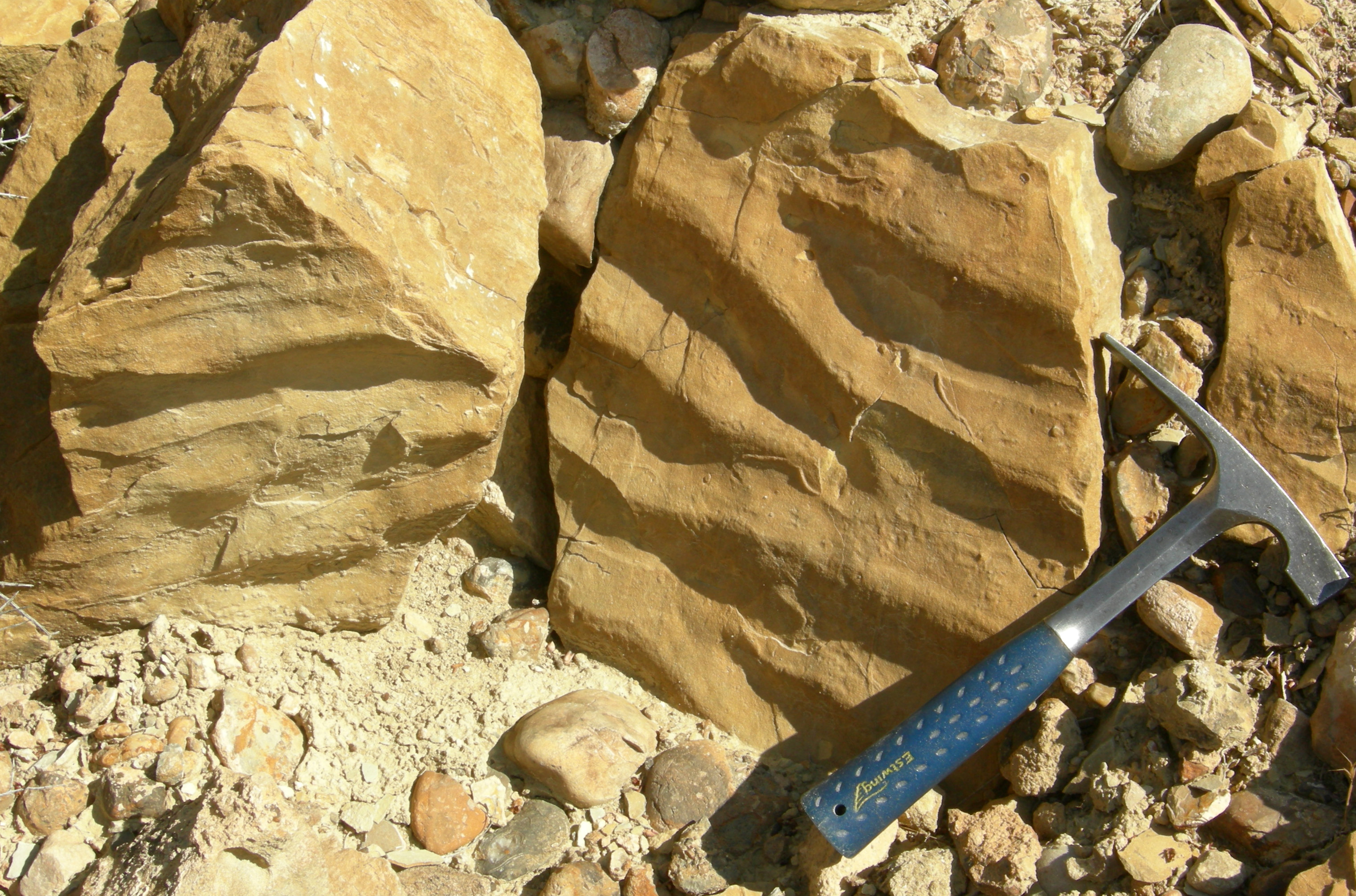 Ripples in biosparite limestone, Carmel Formation (Jurassic) of southwestern Utah.